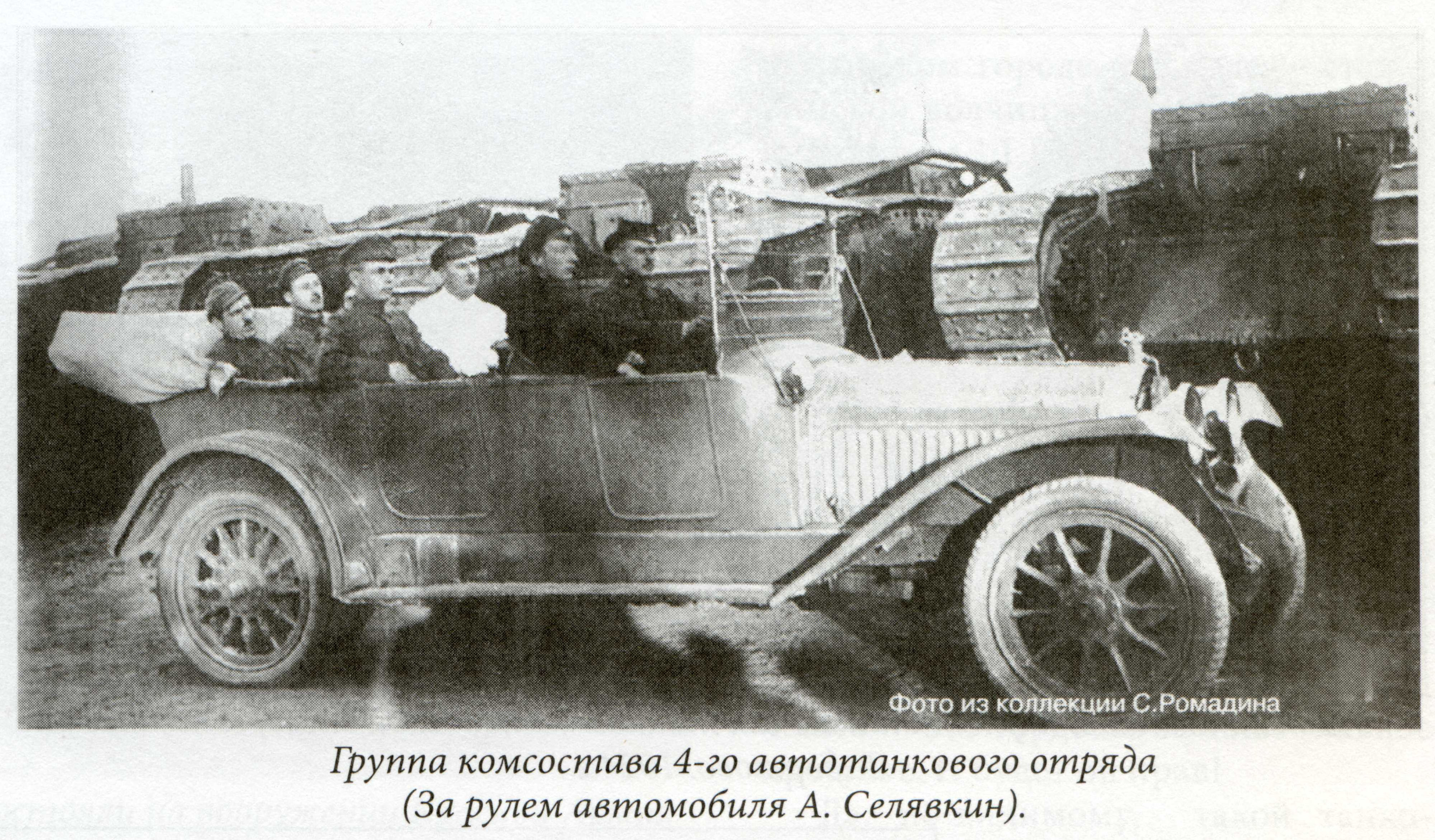 English Mark V tanks in Red Army in Kharkov, 1920s. Automobile is Packard (Dominant) Six series 2-38 with special touring car coachwork by Fisher (1914).